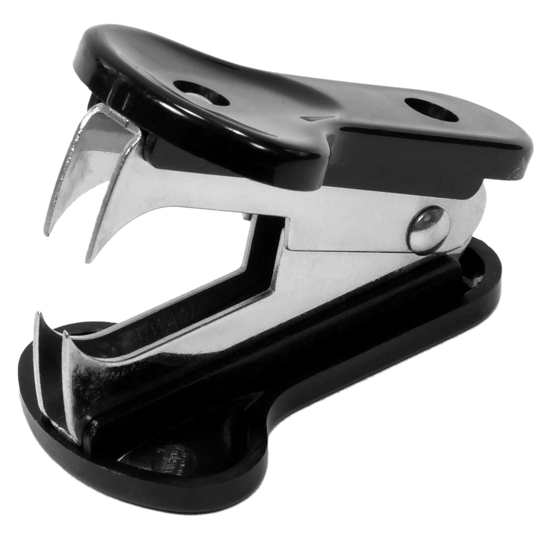 Stapler remover